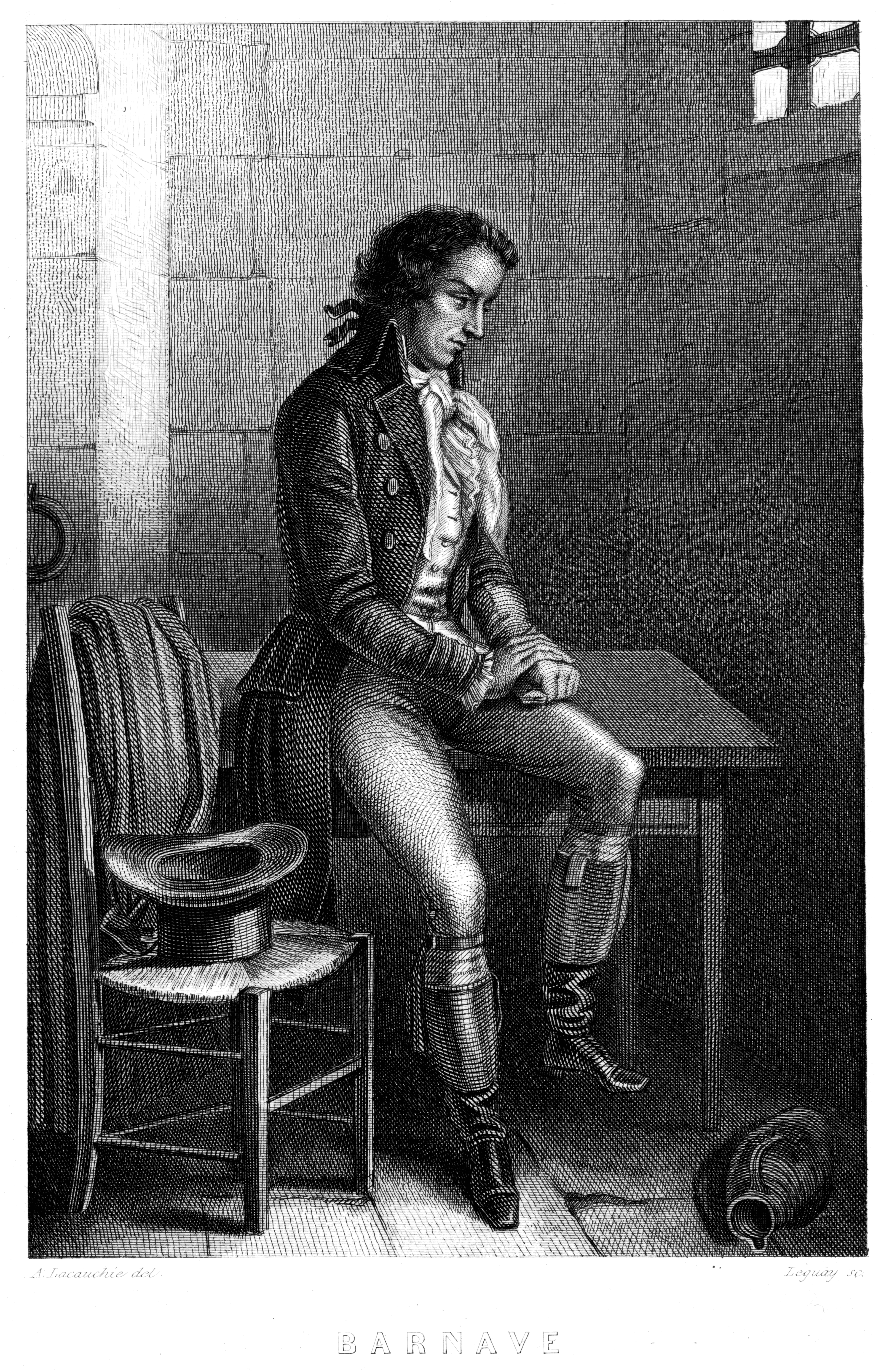 Antoine Barnave jailed.